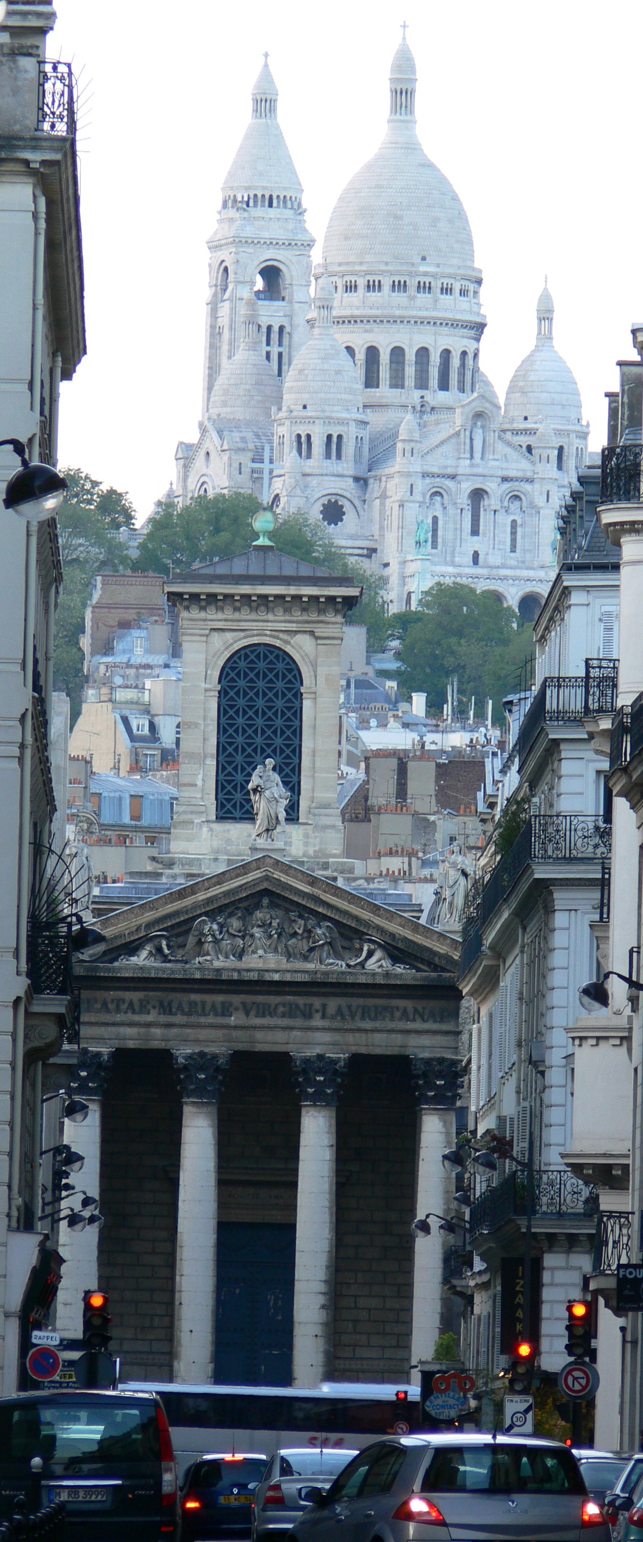 Notre-Dame-De-Lorette in foreground and Sacré-Cœur in background. Photo taken rue Laffitte in the 9th arrondissement.